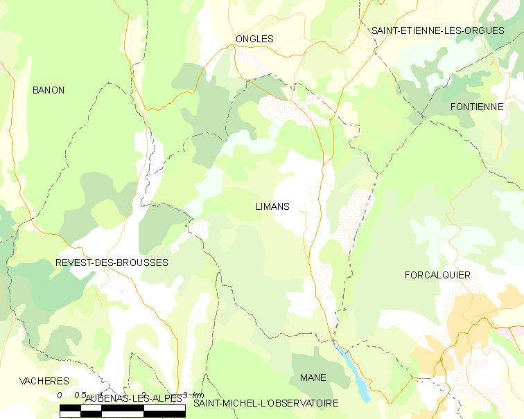 Map commune FR insee code 04104.png Légende